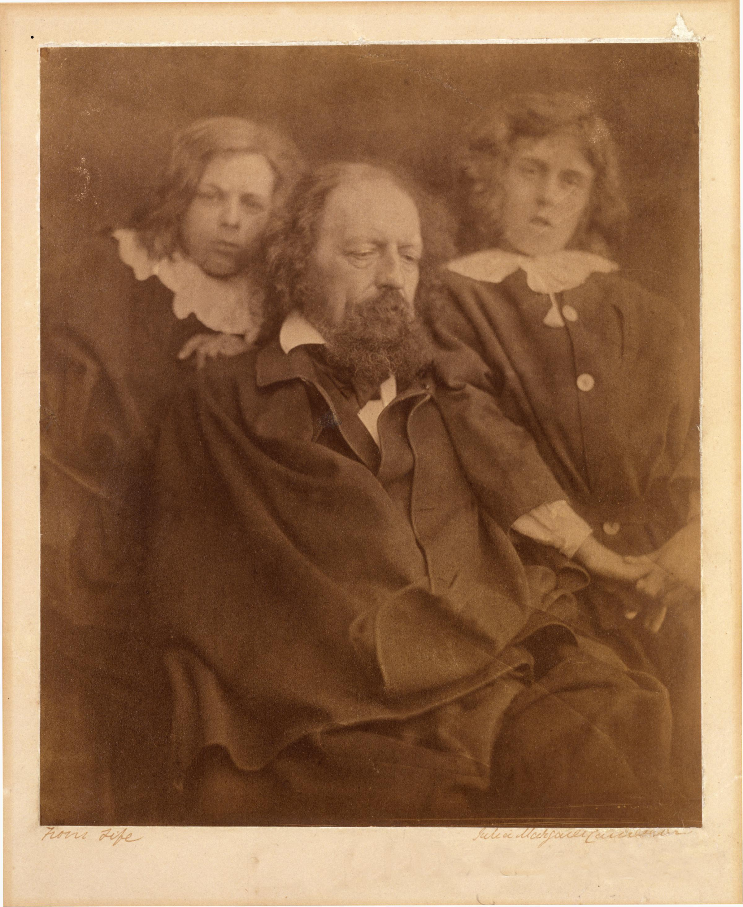 Tennyson and his sons, by Julia Margaret Cameron (died 1879). All images in this batch have been confirmed as author died before 1939 according to the official death date listed by the NPG.